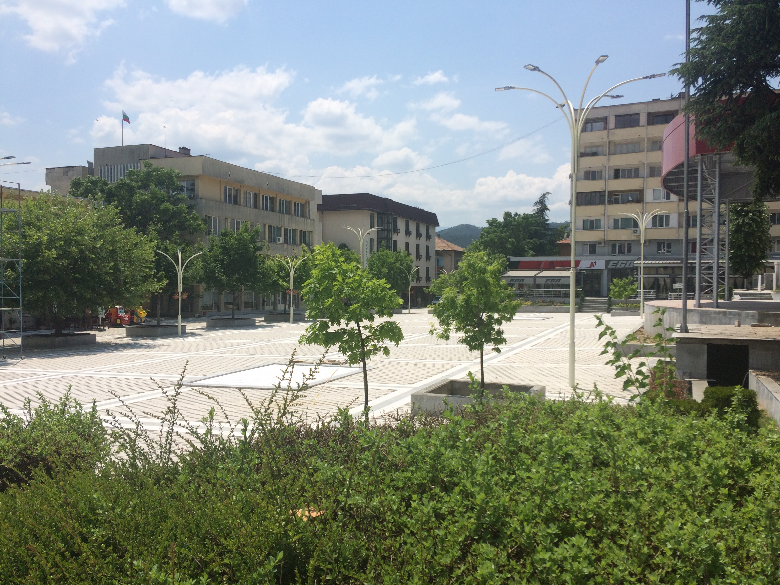 The central square of the town of Simitli, Bulgaria.